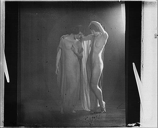 Title: Desha and Leah dancing Abstract/medium: Genthe, Arnold, 1869-1942. Physical description: 1 slide